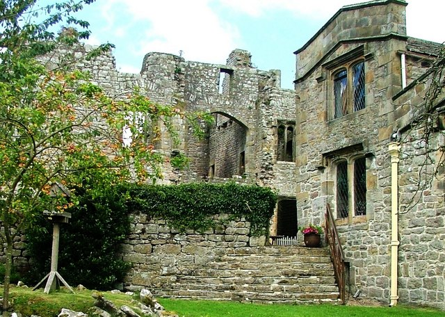 Barden Tower What was a rather splendid hunting lodge built by Henry Clifford, the Shepherd Lord of Skipton Castle. It was destroyed in the 16th century but later rebuilt by Lady Anne Clifford in the 17th century. The Lodge is now a ruin but the Priest House, part of which can be seen right of picture, is still occupied and serves as a restaurant.